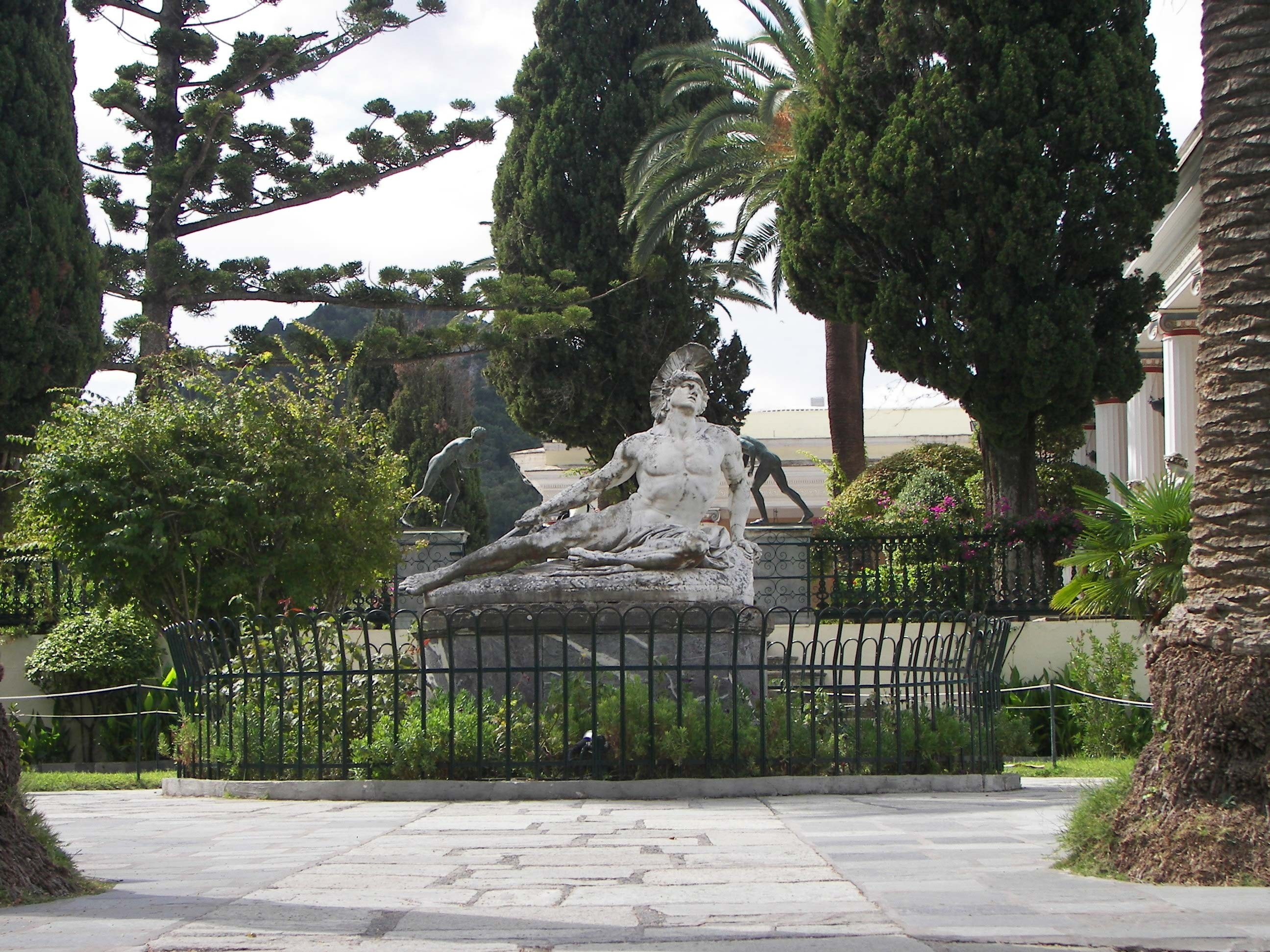 Dying Achilles at Achilleion, Corfu. Sculptor: Ernst Herter, 1884. Ernst Herter (1846–1917) DescriptionGerman sculptorDate of birth/death 14 May 1846 19 December 1917Location of birth/death Berlin BerlinWork location BerlinAuthority control : Q871262 VIAF: 77111692 ISNI: 0000 0001 2102 5176 ULAN: 500267506 LCCN: n87129740 GND: 118774247 WorldCat creator QS:P170,Q871262